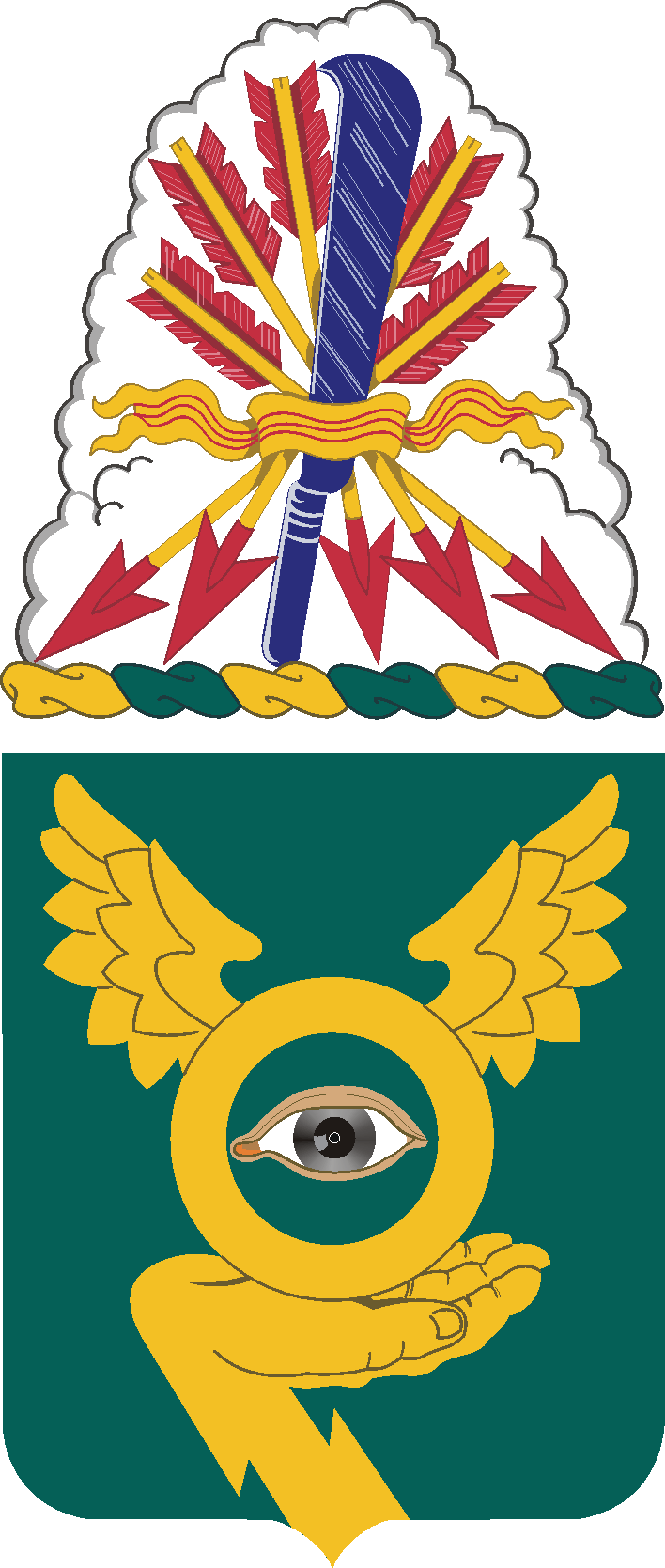 1st Military Intelligence Battalion coat of arms from [1]